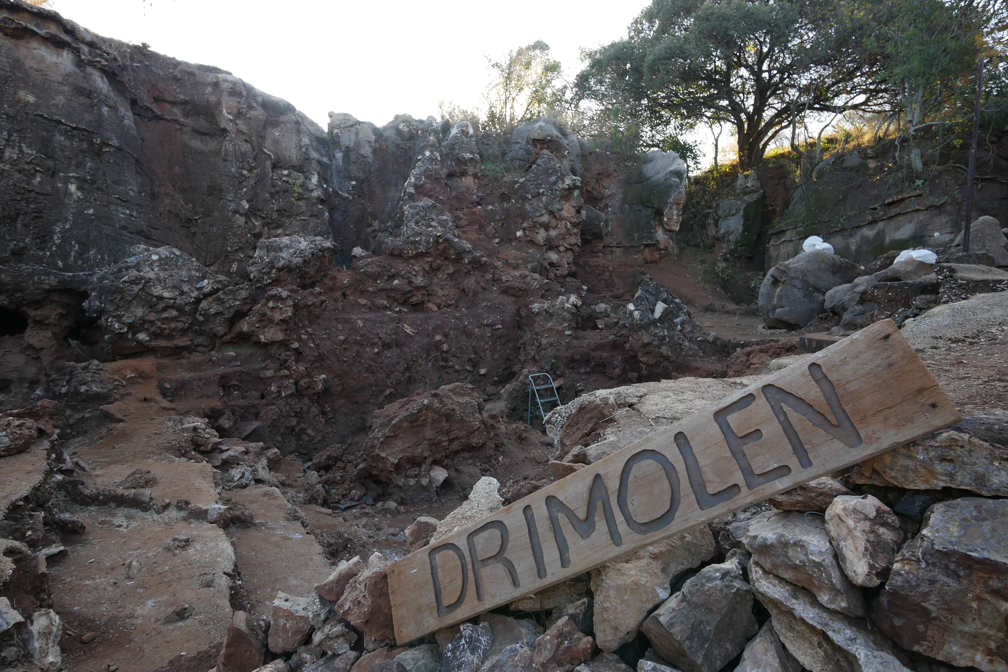 The Drimolen Main Quarry fossil bearing palaeocavern where the DNH 7 Paranthropus robustus cranium was discovered.